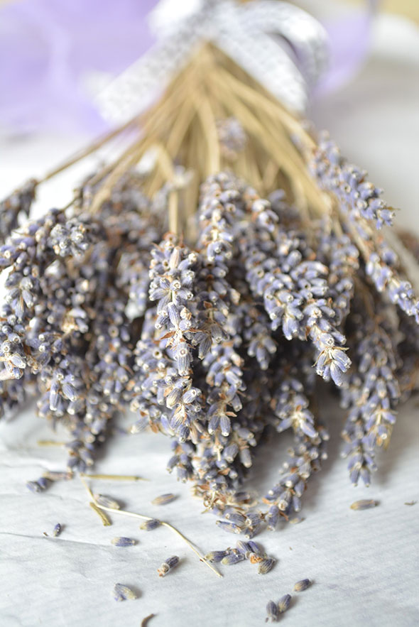 I made this photo for a blog post about the benefits of lavender: You can use it, but please link back to the original post. Thanx!